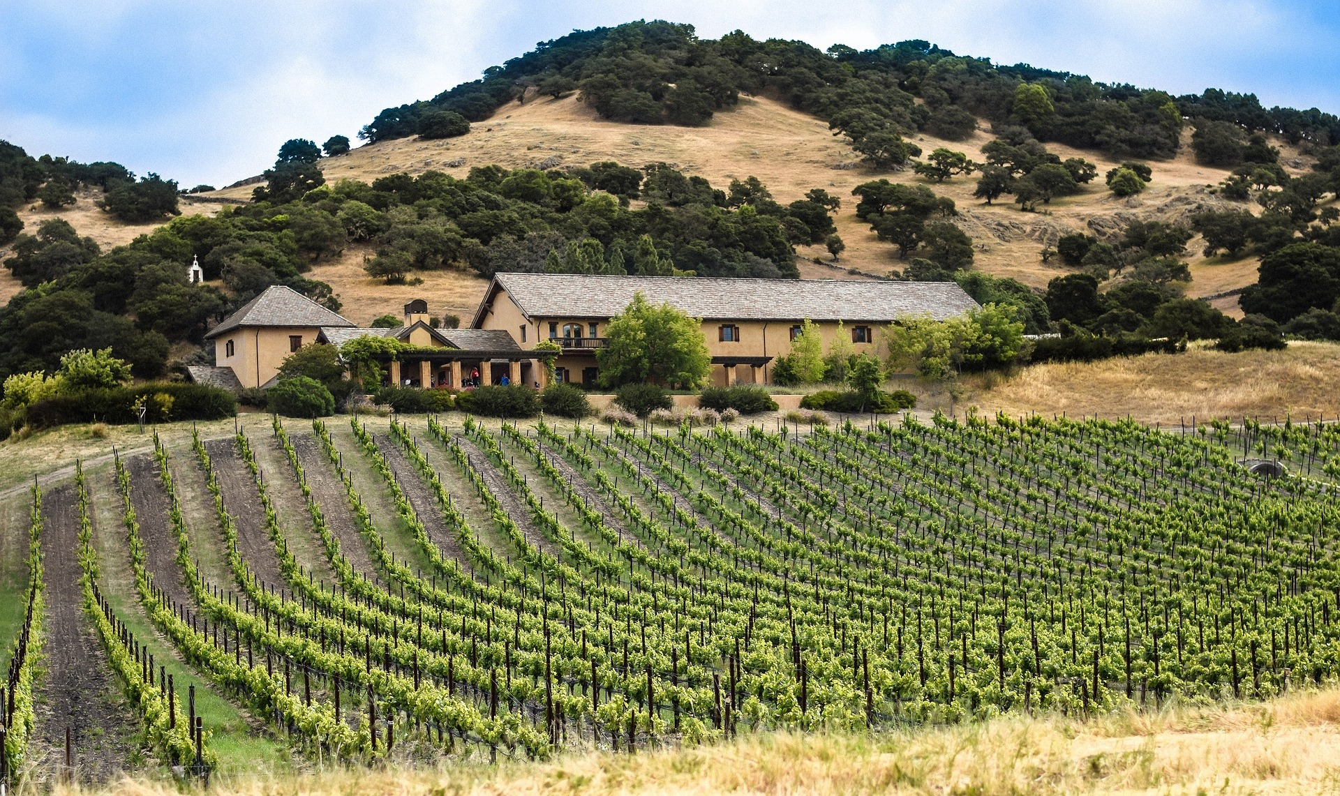 Grapes camp